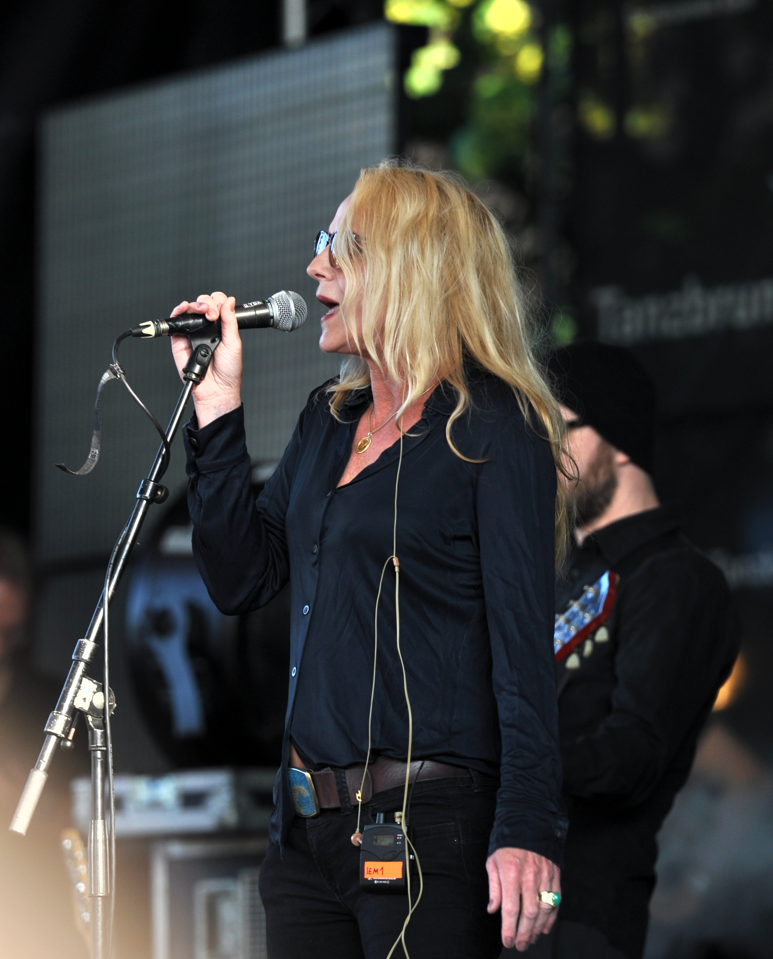 Pia Lund with Phillip Boa & the Voodooclub at the Amphi Festival 2013, Cologne, Germany